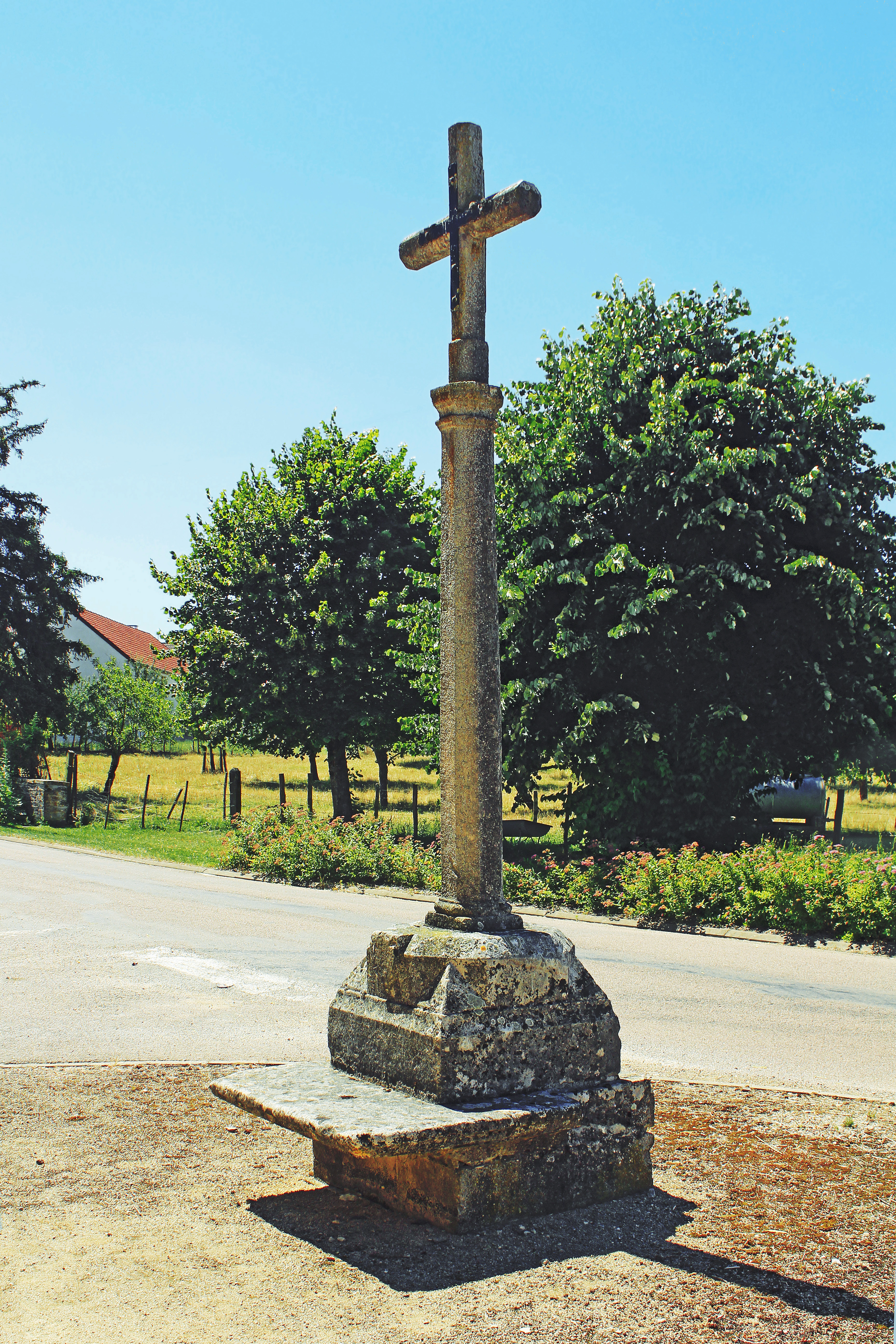 Cross wih rest sit in front of the church of la Villeneuve-les-Convers